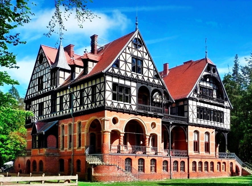 castle gelbsand germany